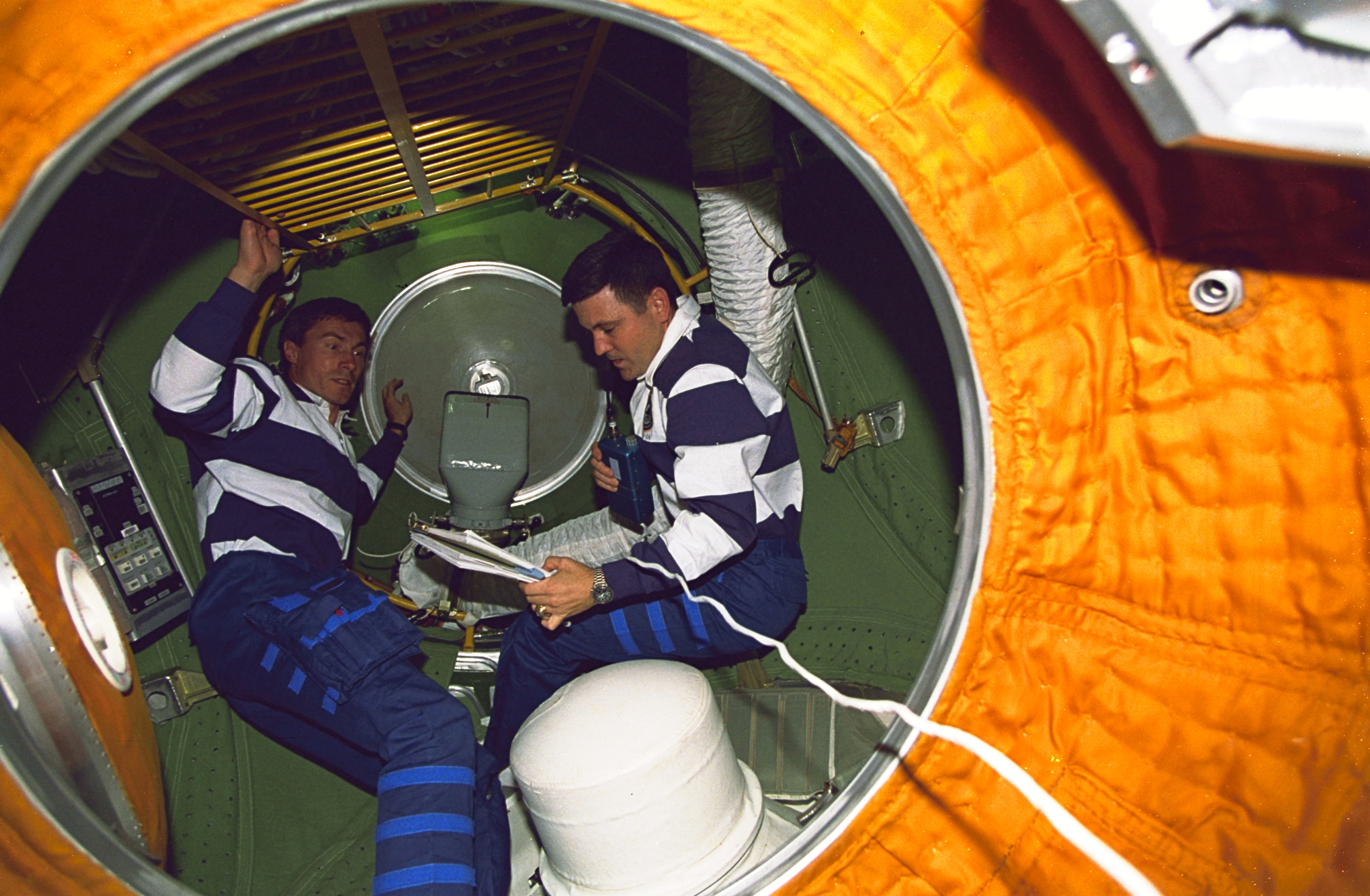 Cosmonaut Sergei K. Krikalev (left), mission specialist representing the Russian Space Agency (RSA), and astronaut Robert D. Cabana mission commander, plan their approach to tasks as they huddle at an internal hatch in the Russian built FGB, also called Zarya. All six STS-88 crew members were involved in tasks to ready Zarya and the now-connected U.S. Node 1, also called Unity, for their International Space Station (ISS) roles. Krikalev has been named as a member of the first ISS crew.